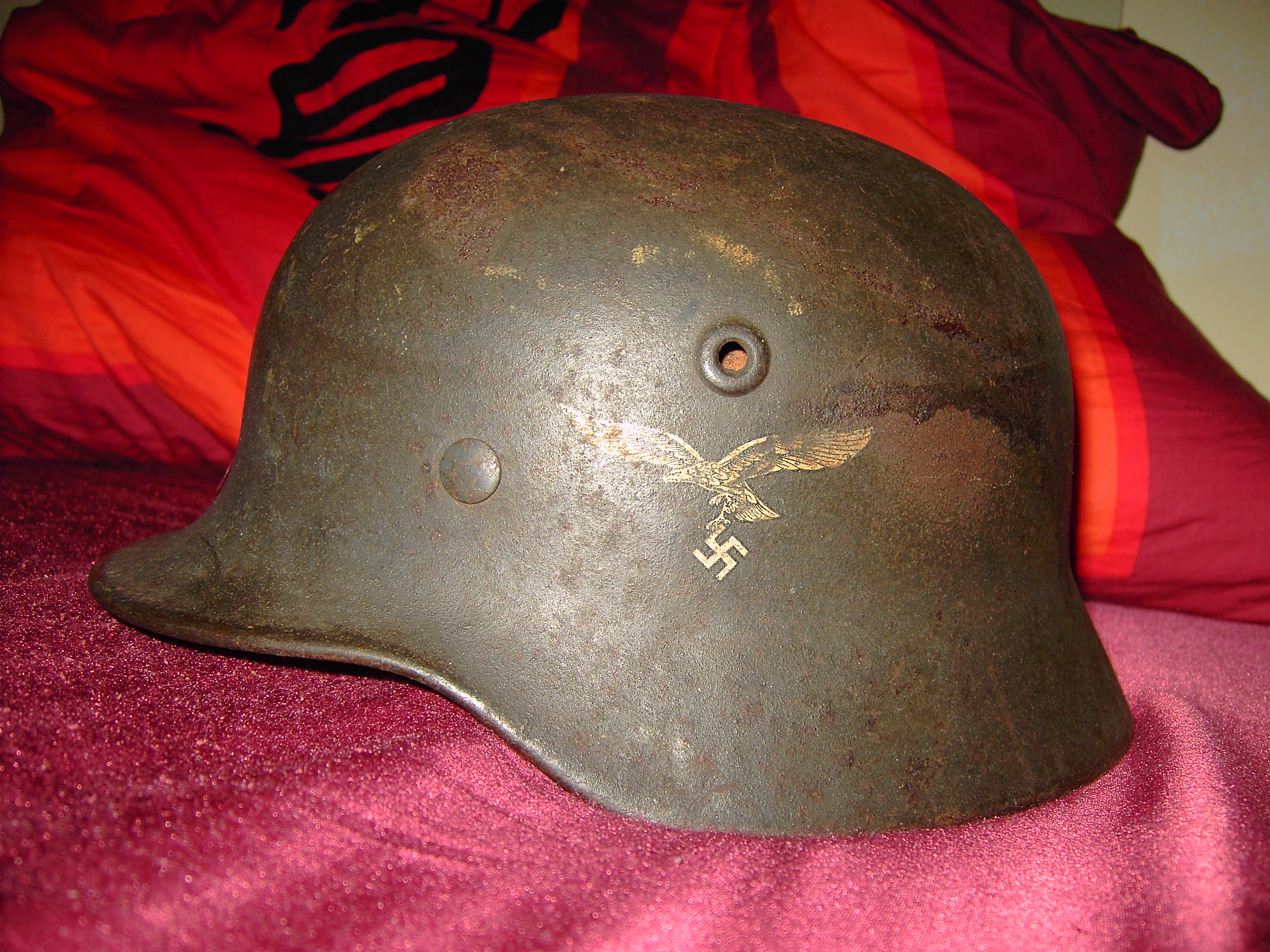 A helmet of the German Wehrmacht (with a marking Luftwaffe), as it was used in 2nd world war.